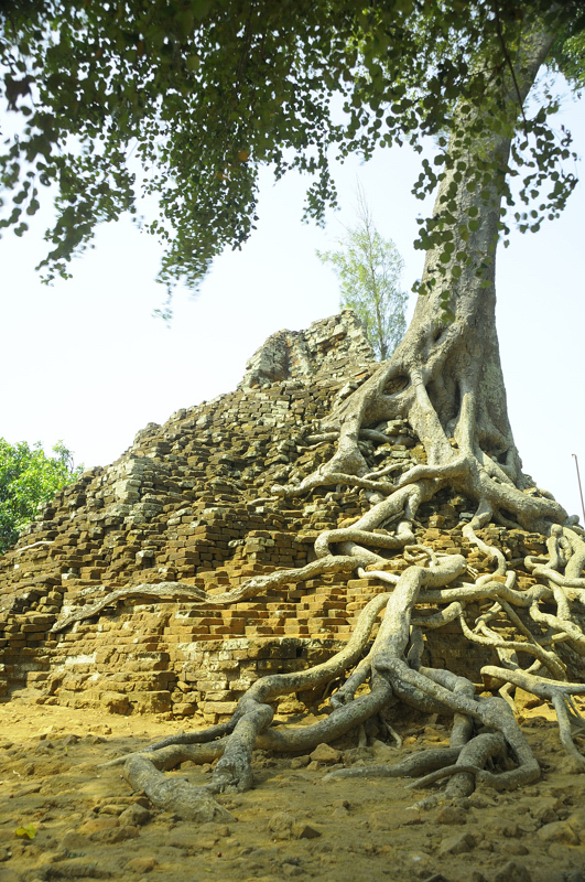 Candi Lor, Loceret, Nganjuk, Jawa Timur.